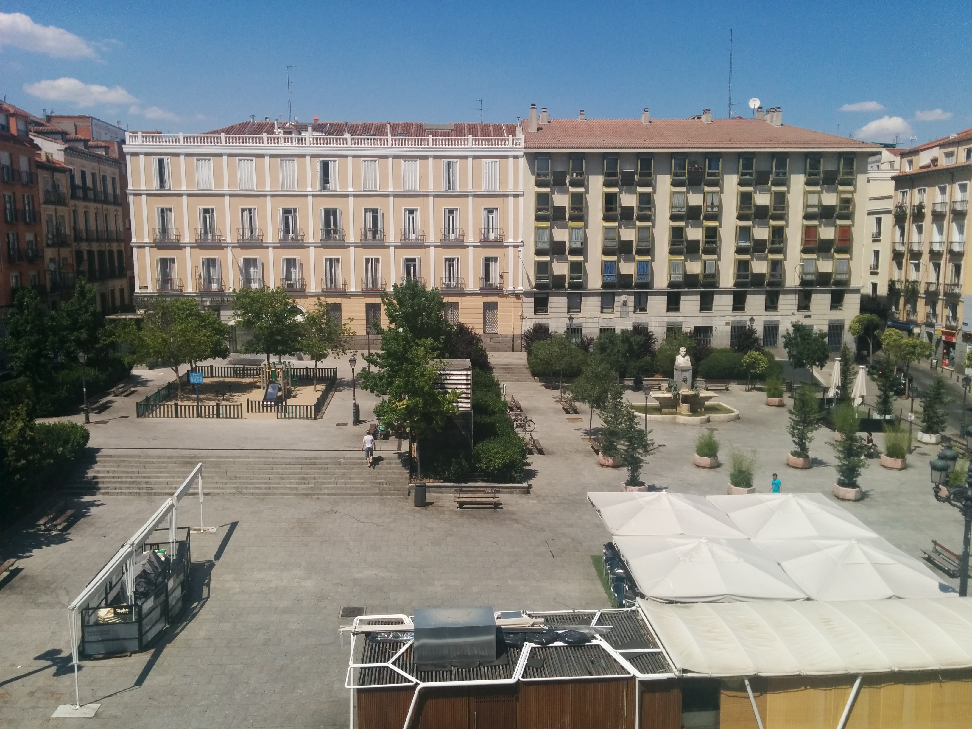 View from the apartment